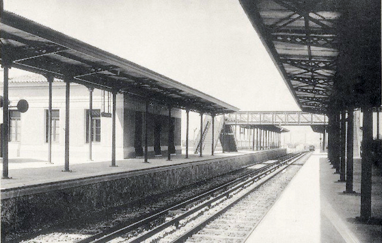 The Kallithea metro station in 1928